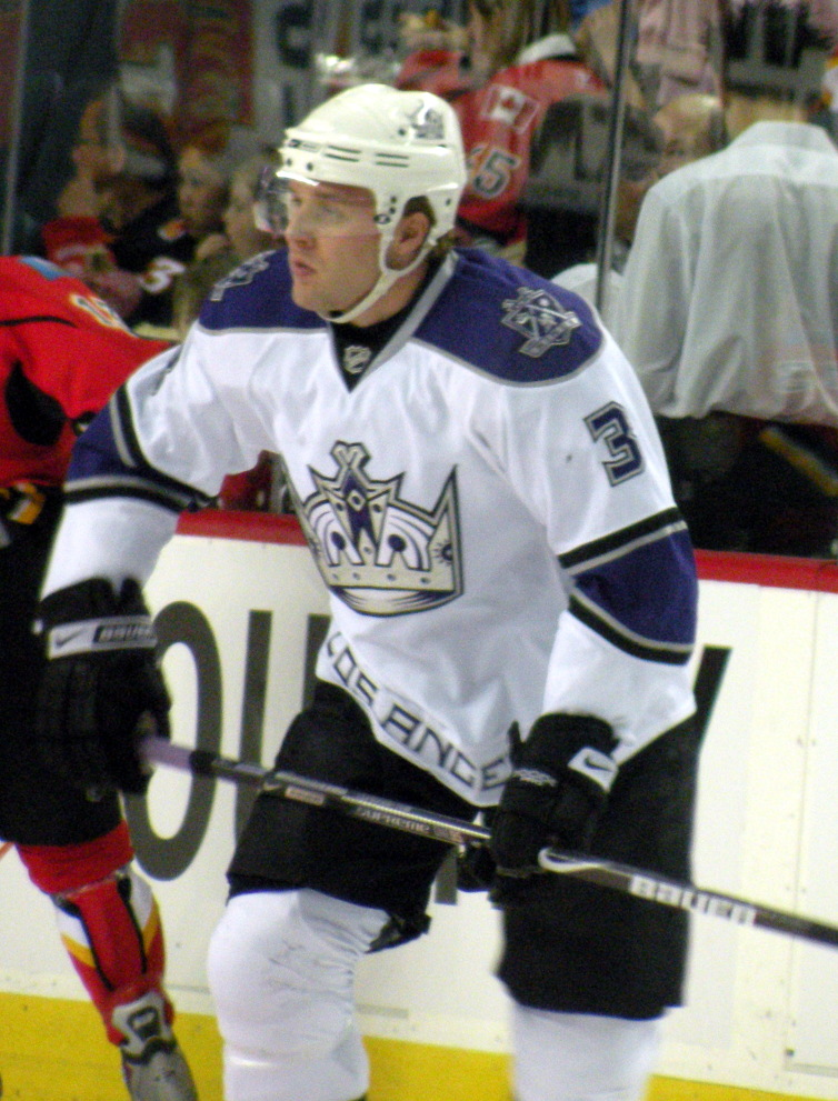 Los Angeles Kings defenceman Jack Johnson during warmup prior to a National Hockey League game against the Calgary Flames in Calgary.